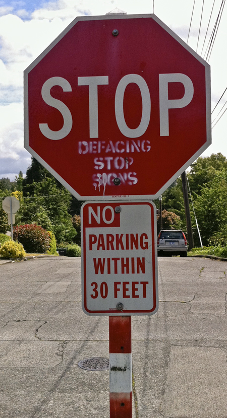 A stop sign ironically defaced with a beseechment not to deface stop signs